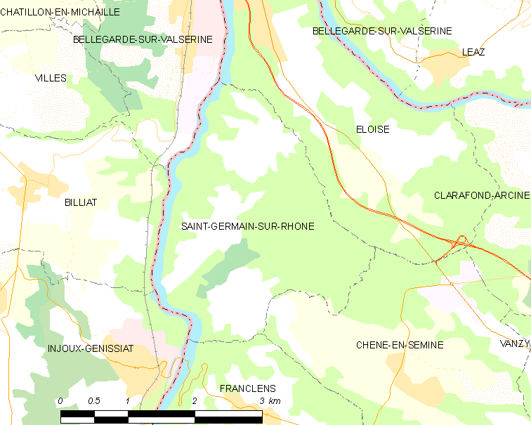 Map of French municipality Saint-Germain-sur-Rhône